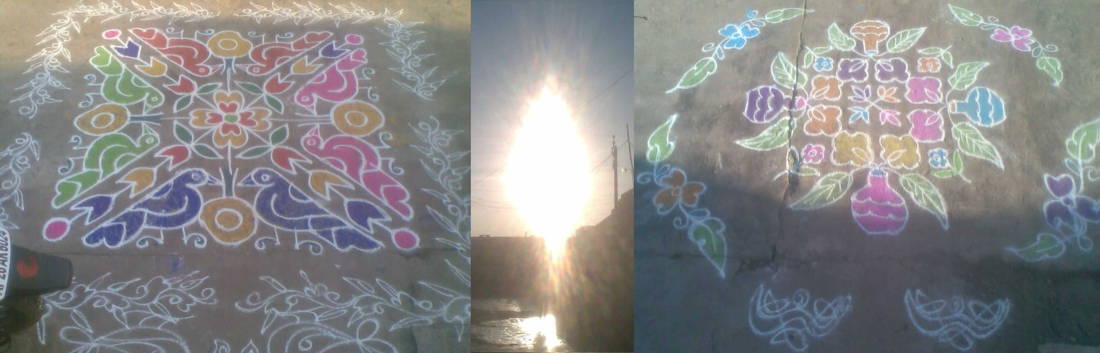 Makar Sankranti in India